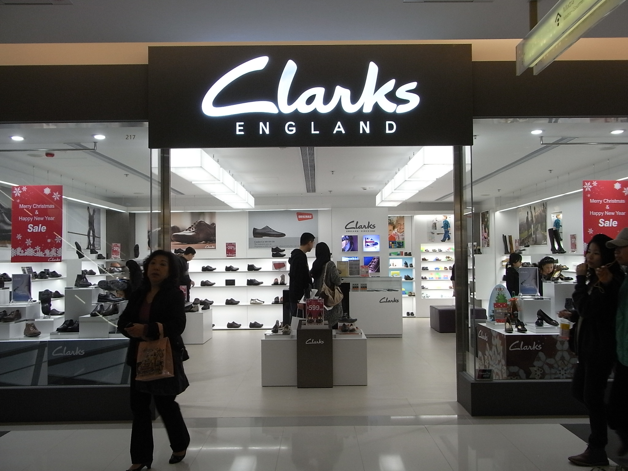 尖沙咀K11購物藝術館商場 K11 (skyscraper) C&J Clark 其樂鞋店